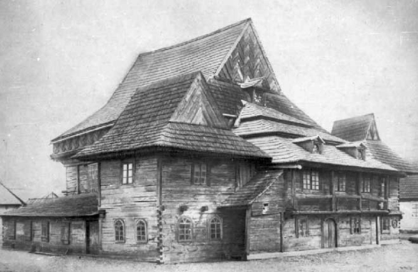 Wooden synagogue in Zabłudów in Podlasie region (Poland) built in XVII c. destroyed by Germans during the II world war. Synagoga drewniana w Zabłudowie z XVII wieku. Zniszczona w czasie II wojny światowej przez Niemców.